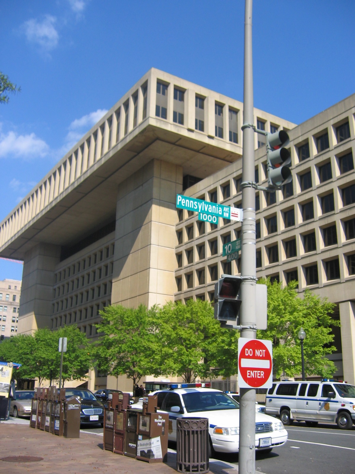 J Edgar Hoover Building, FBI headquarters in Washington, D.C.